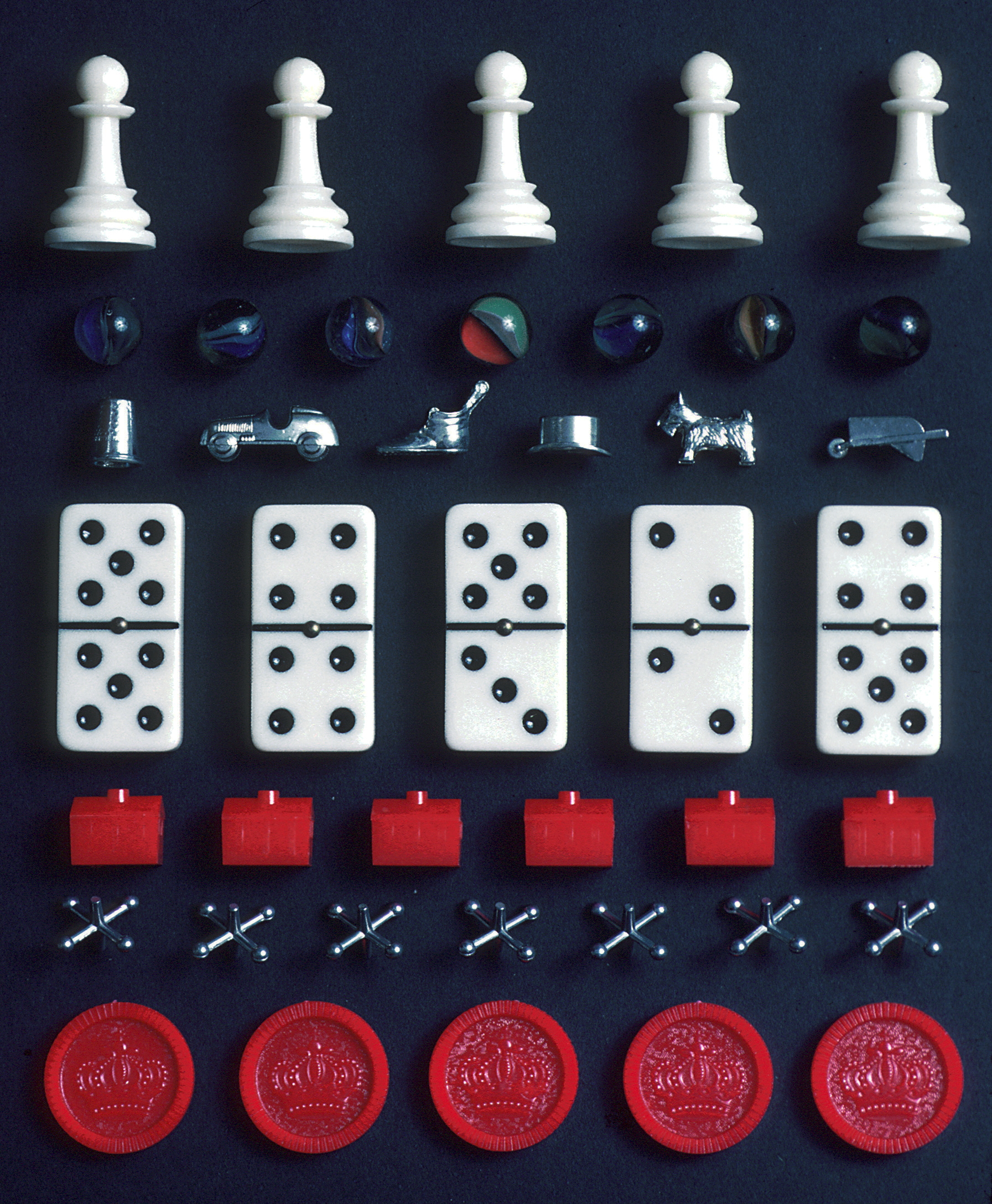 Title Game Pieces Description Game pieces: chess pawns, marbles, monopoly pieces, dominoes, jacks and checkers. Topics/Categories Historical, Graphics Type Color, Photo Source National Cancer Institute